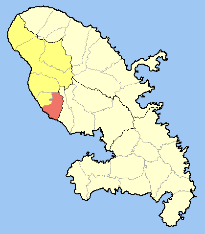 Location of Case-Pilote within Martinique